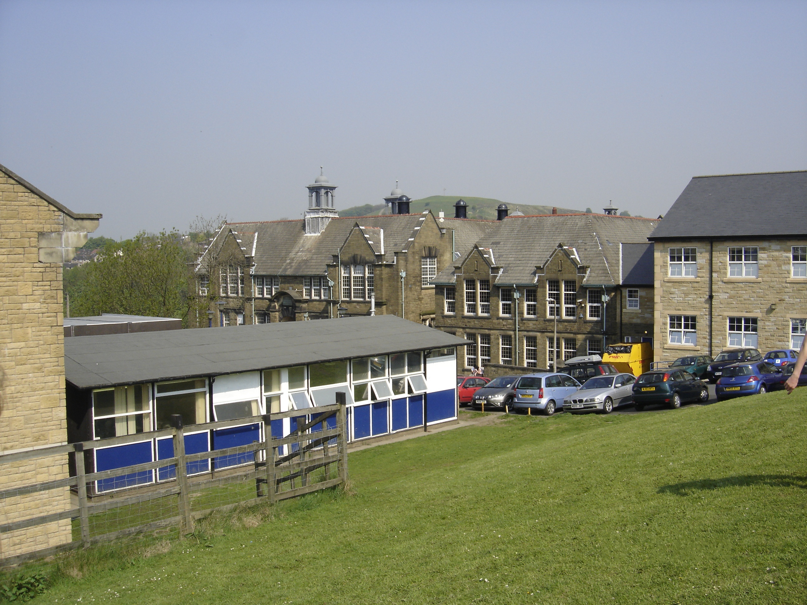 Bacup & Rawtenstall Grammar School taken by Chris Priestley